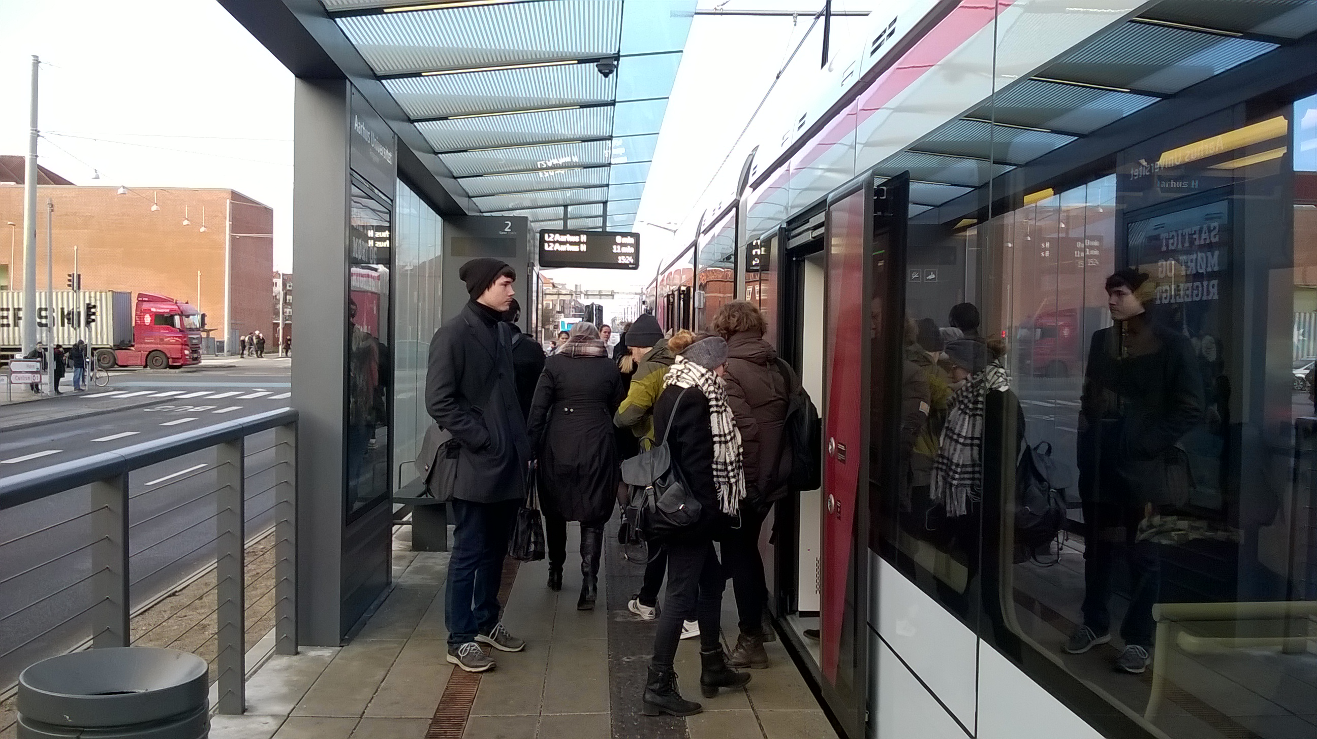 Aarhus Universitet Station, syd perron.